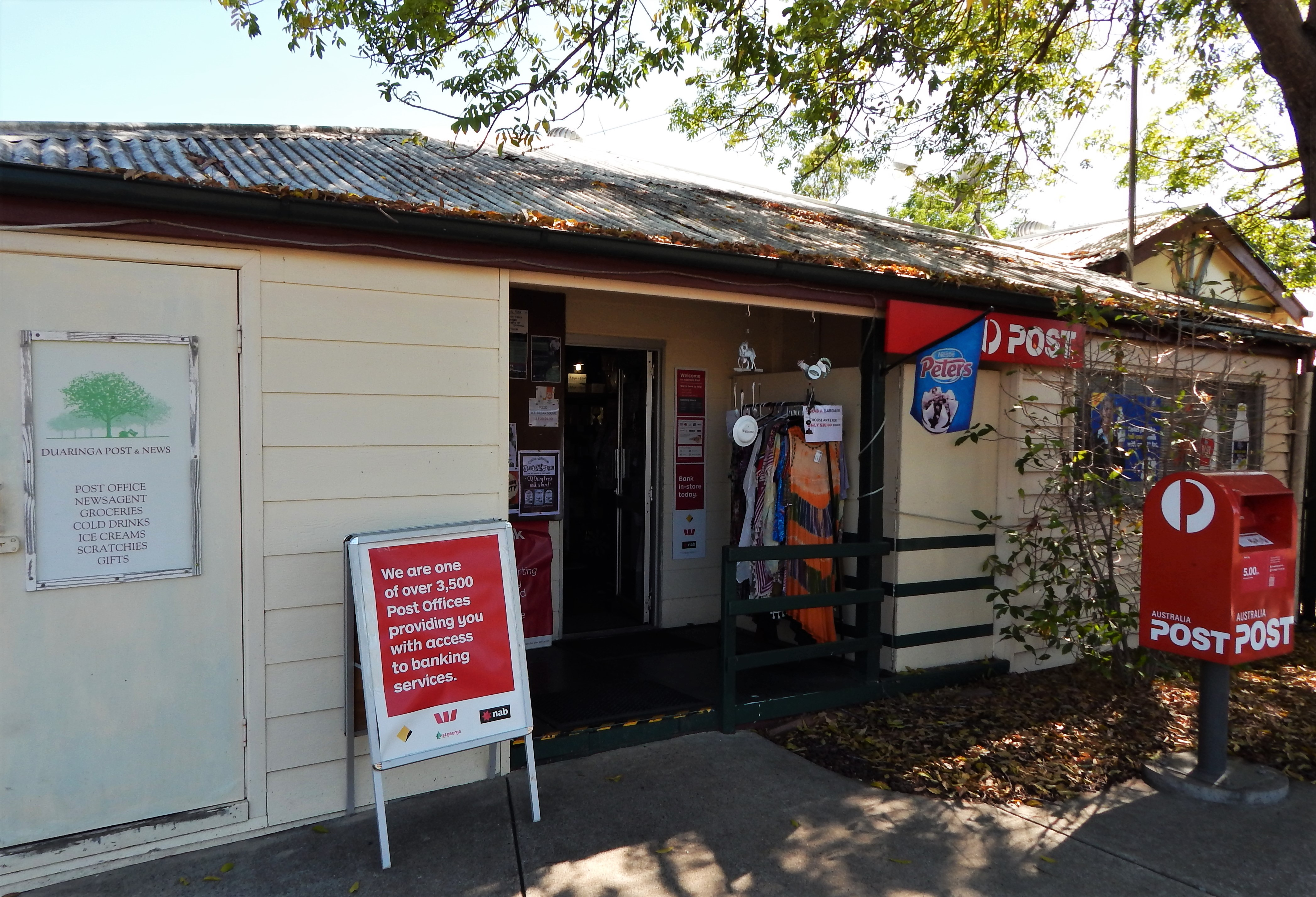 The local post office and newsagency in Duaringa, Queensland